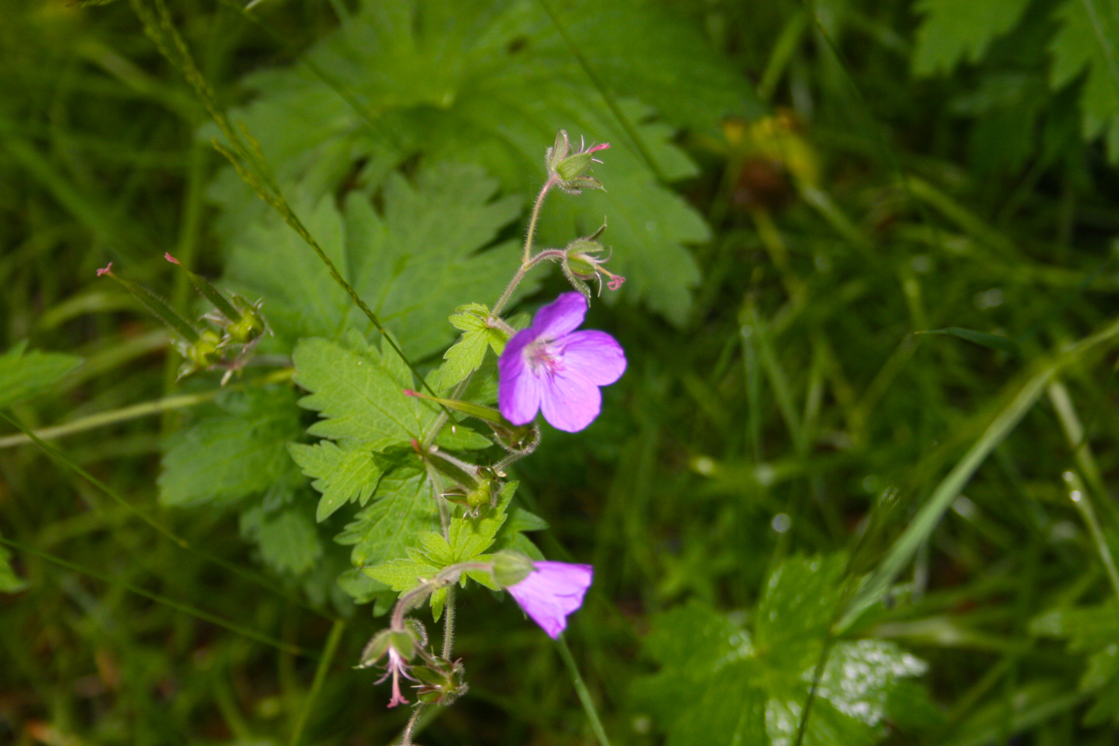 Geranium sylvaticum, in Thingvellir national park